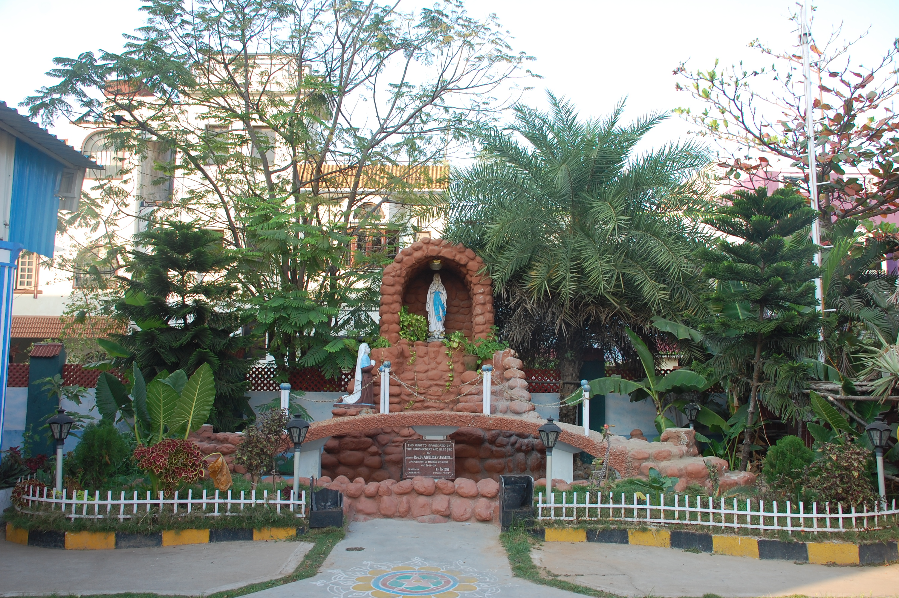 Mary Statue at perambur